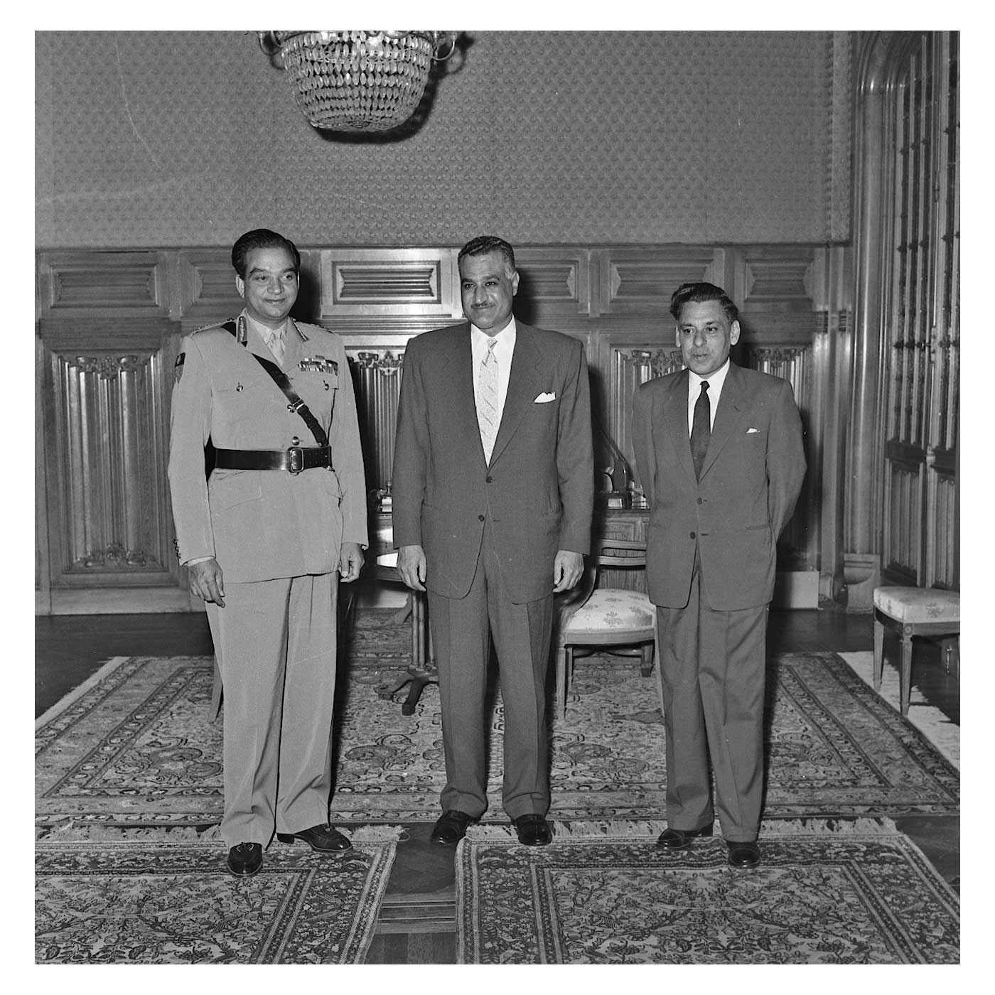 Nasser receiving the Maharajah of Jaipur and the Indian Ambassador Ratan Kumar Nehru in Cairo.